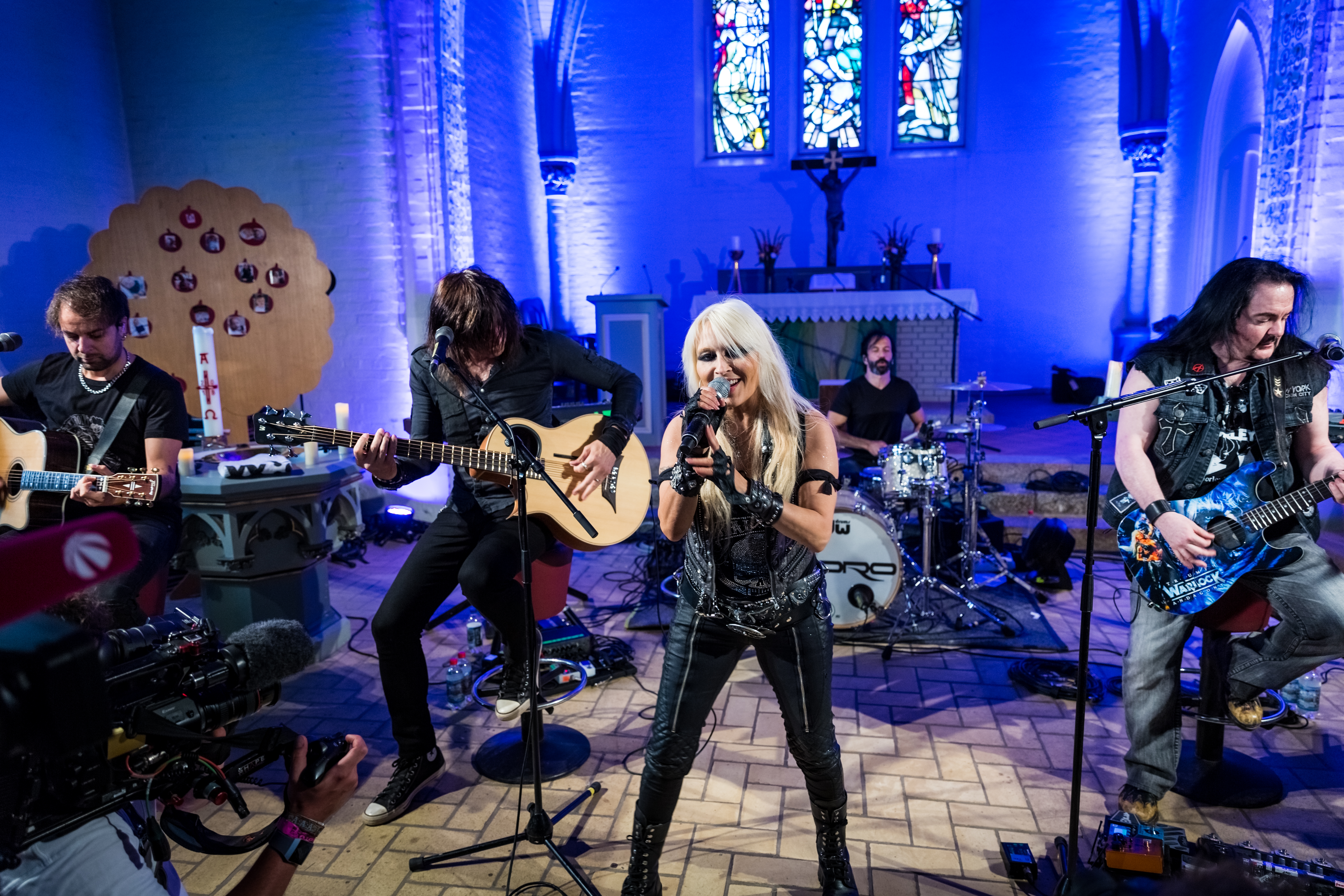 Doro live in der Metal Church - Wacken Open Air 2018